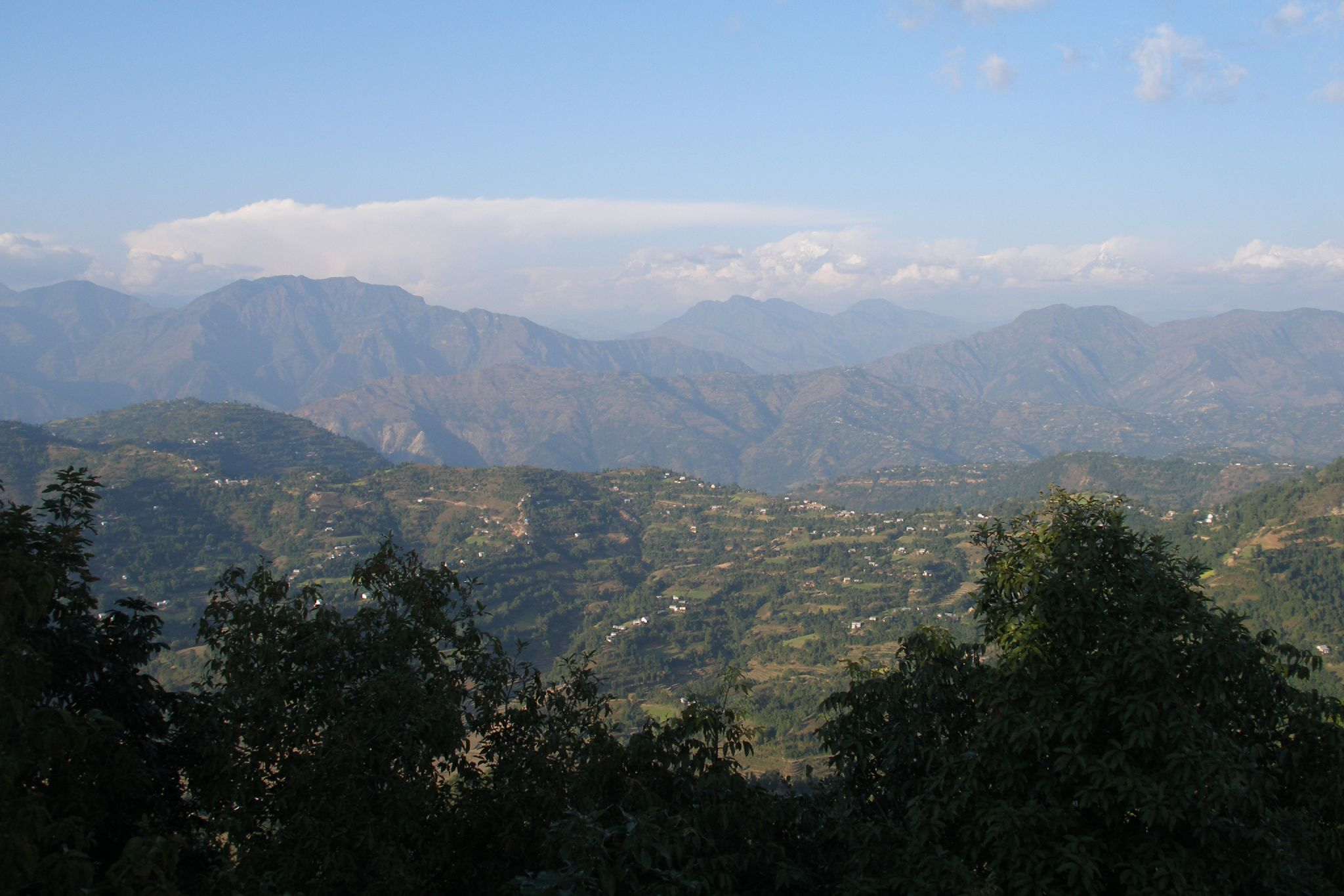 The Mahabharat Range (Lesser Himalaya) at Tansen, Nepal. In the background the Greater Himalaya (snow and clouds)